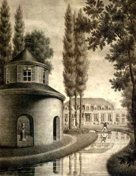 Vue d'une maison de campagne dans la grande allée commune de Wazemmes près de Lilledimensions : 43 x 30,5 cm